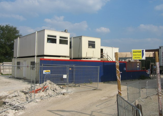 Building Site Offices